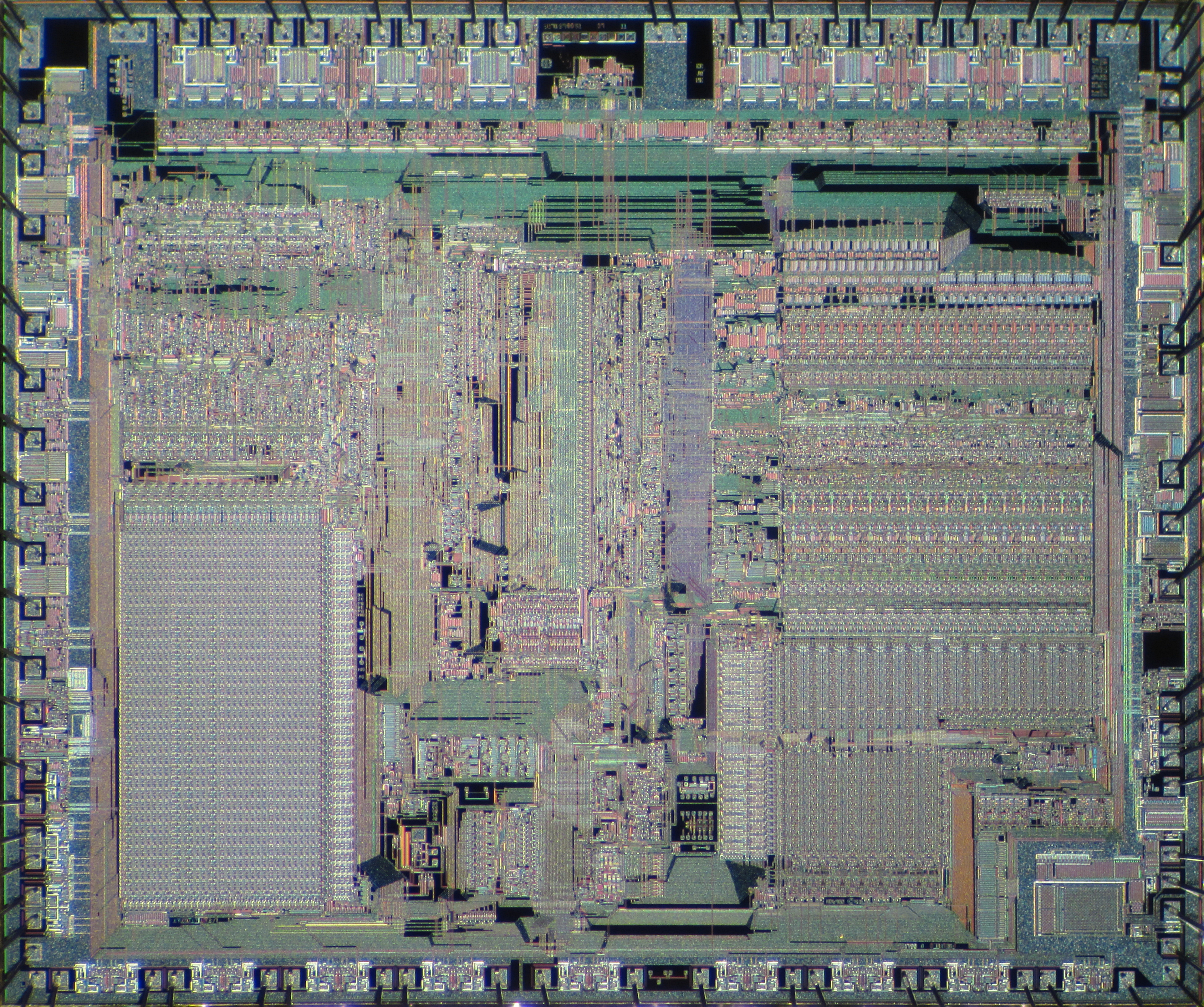 Die shot of DEC J-11 Data chip with chip number DC334 and part number 21-17677-04.